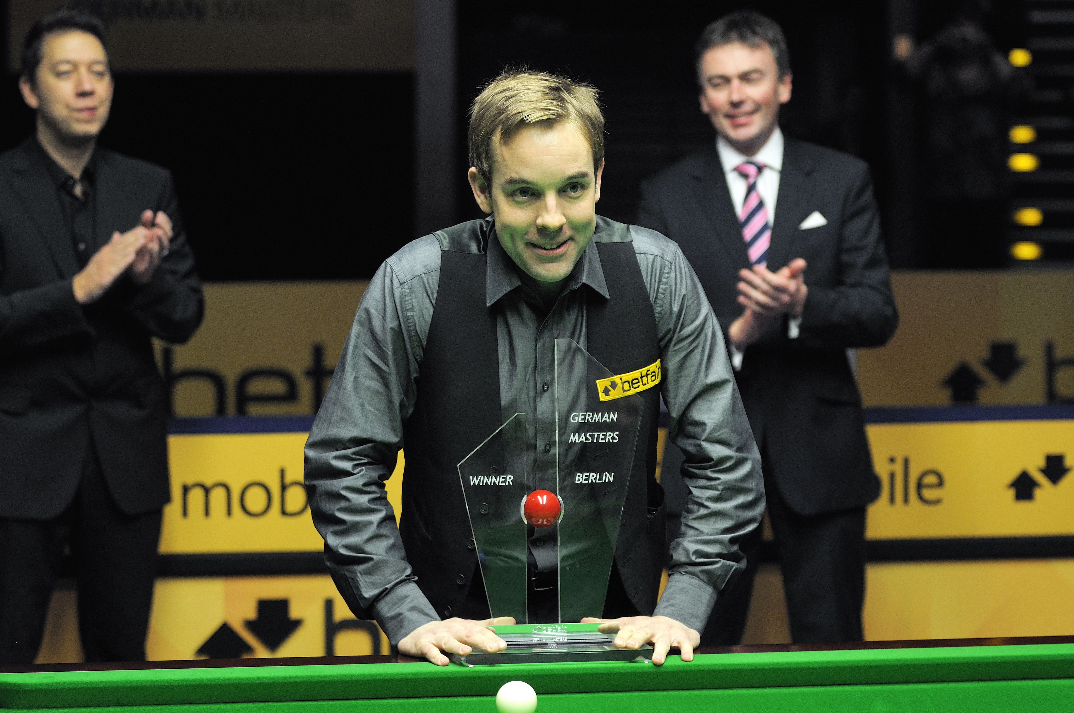 Picture taken in Berlin during the Snooker German Masters in 2013. Ali Carter.